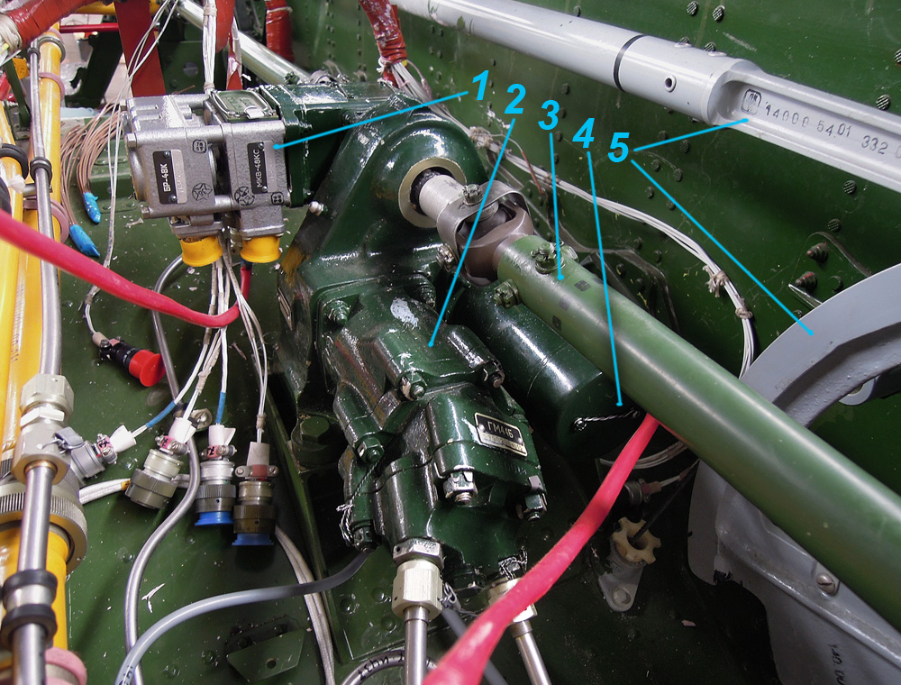 Flaps drive unit of Antonov An-140 plane. 1 — resistors and limit switches, 2 — hydraulic motor, 3 — flaps transmission, 4 — standby DC motor, 5 — aileron circuit.